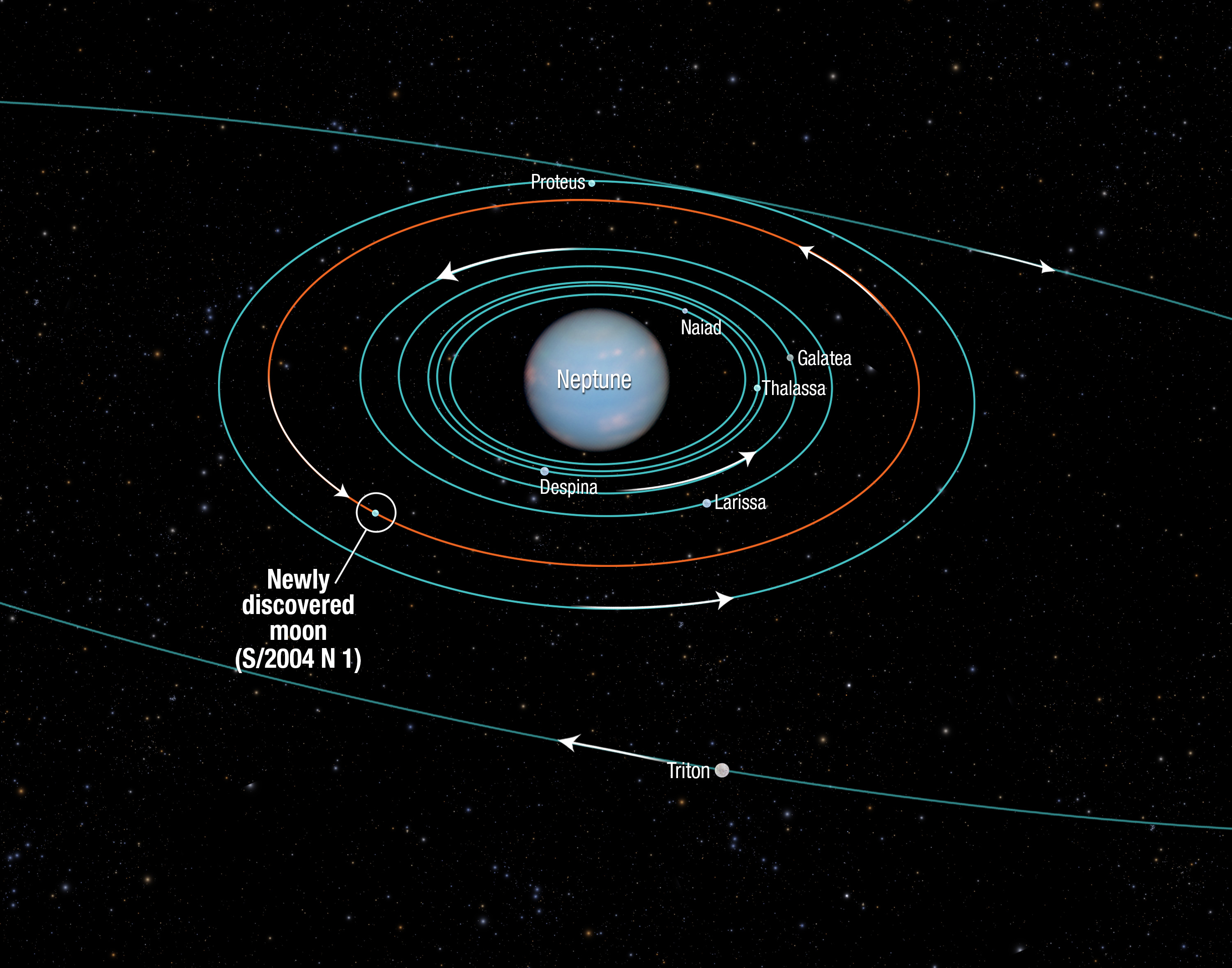 This diagram shows the orbits of several moons located close to the planet Neptune. All of them were discovered in 1989 by NASA's Voyager 2 spacecraft, with the exception of S/2004 N 1, which was discovered in archival Hubble Space Telescope images taken from 2004 to 2009. The moons all follow prograde orbits and are nestled among Neptune's rings (not shown). The outer moon Triton was discovered in 1846 — the same year the planet itself was discovered. Triton's orbit is retrograde, suggesting it is a captured Kuiper Belt object and therefore a distant cousin of Pluto. The inner moons may have formed after Triton's capture several billion years ago.